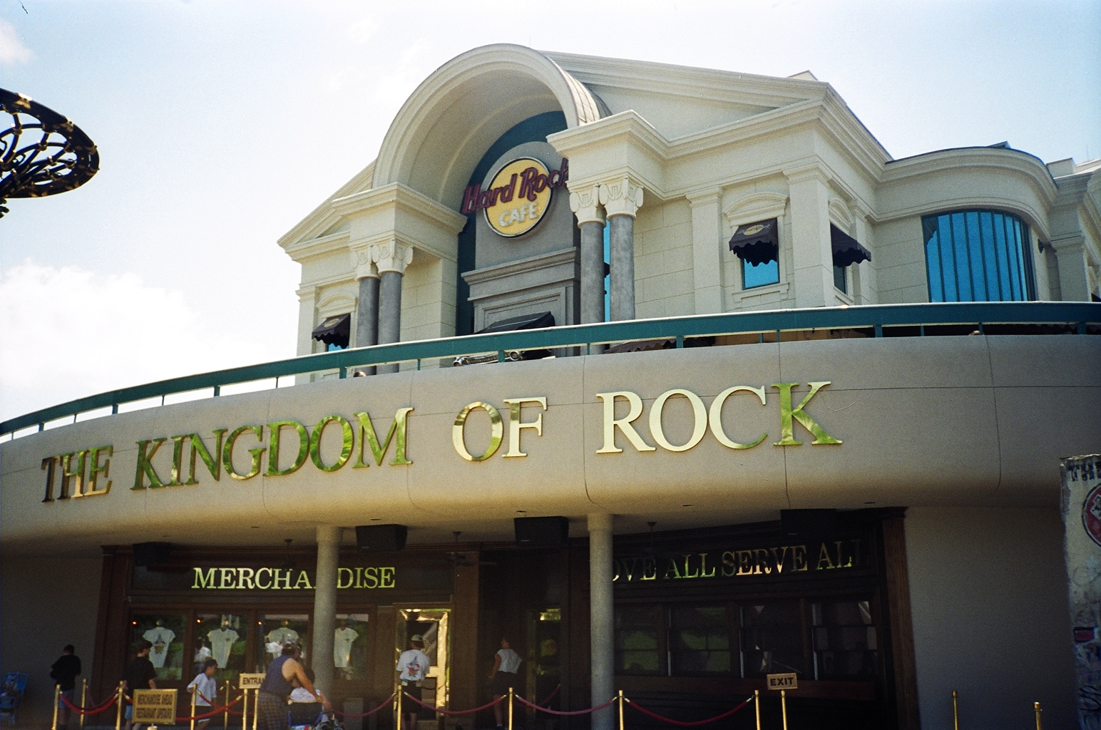 “ The Kingdom of Rock ” Hard Rock Cafe Hollywood at Universal Citywalk